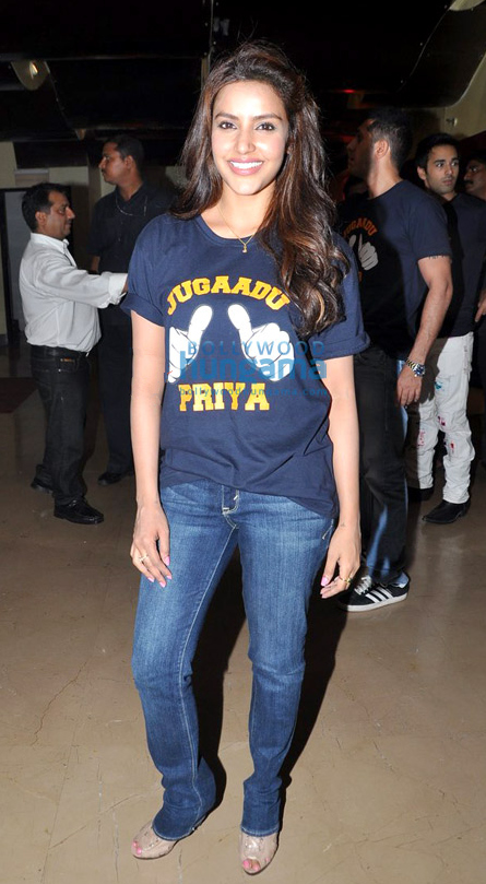 Priya Anand at 'Fukrey' Jugaadu event